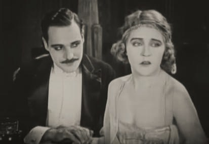 Bertram Grassby and Mae Murray in The Delicious Little Devil - cropped screenshot